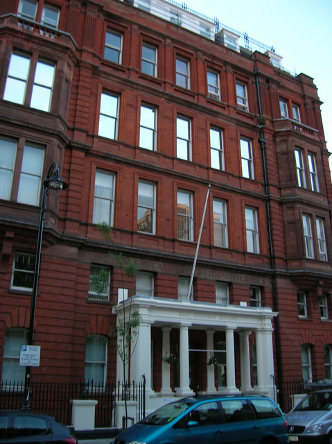 Paul O'Gorman Building, The Hospital For Sick Children, Great Ormond Street, London WC1